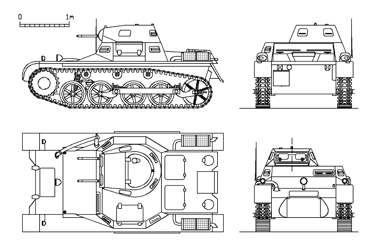 PzKpfw I Ausf. A (plans)